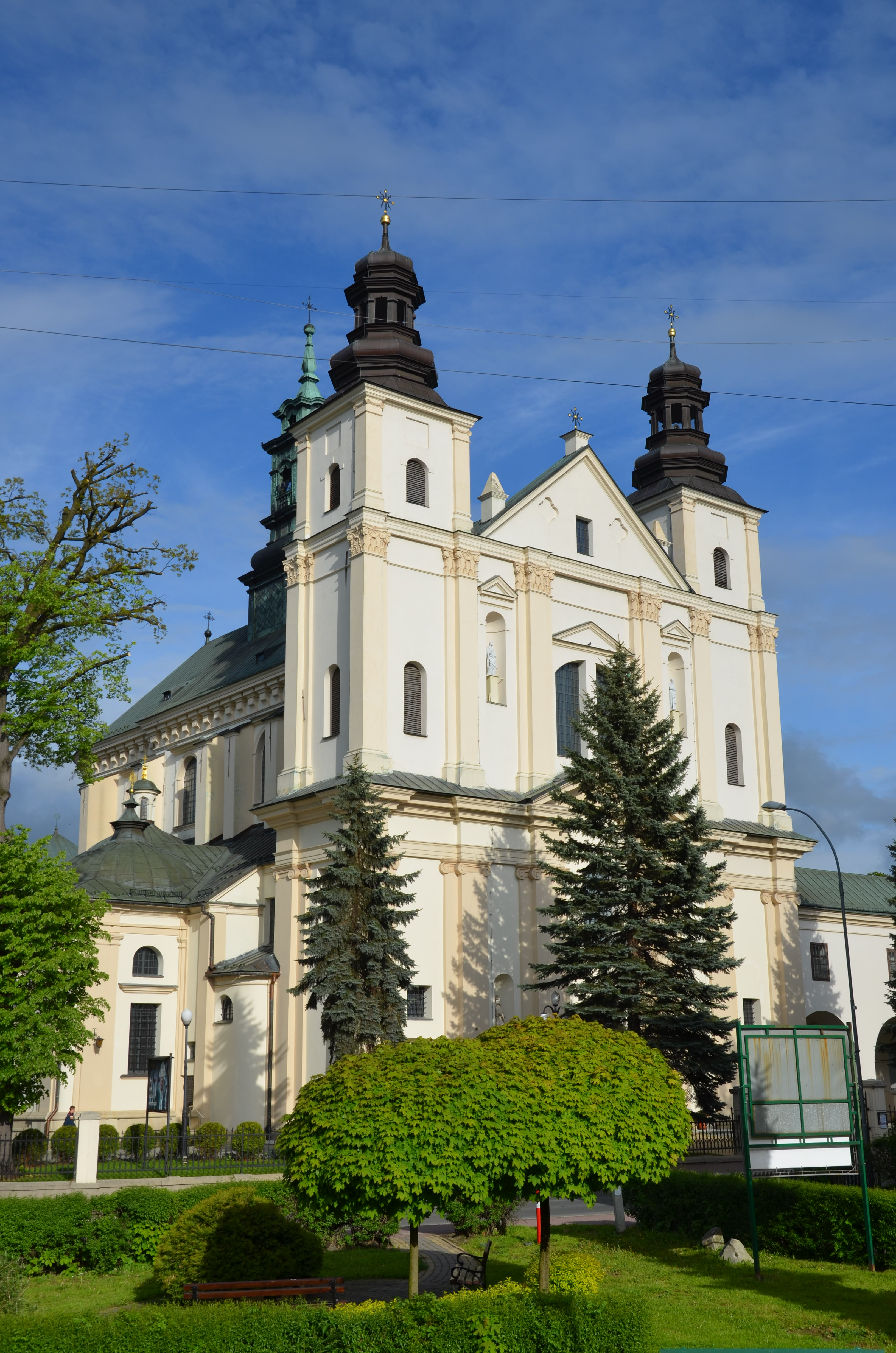 Church of the Transfiguration in Brzozów